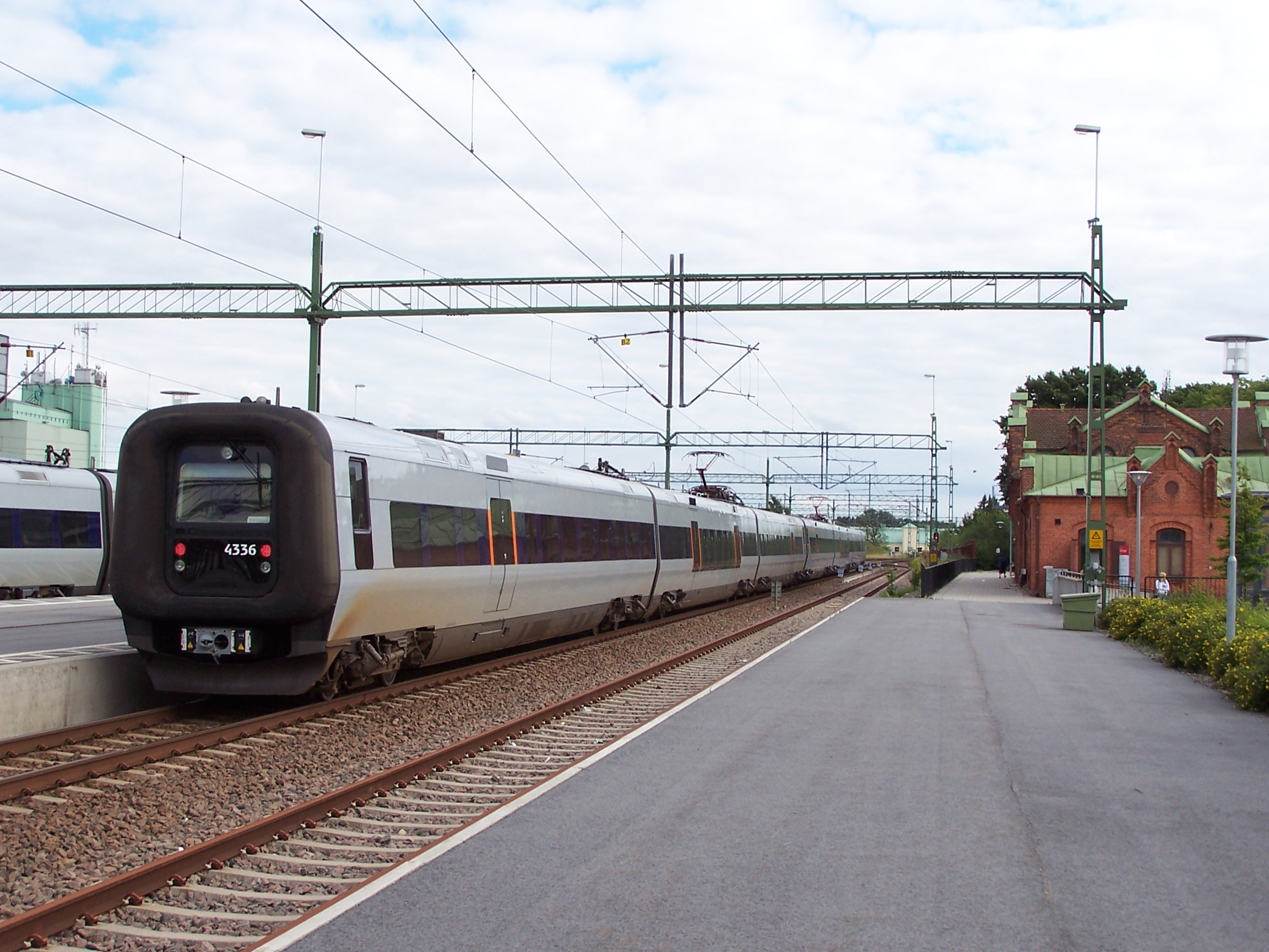 Öresundståg at Kävlinge railway station.